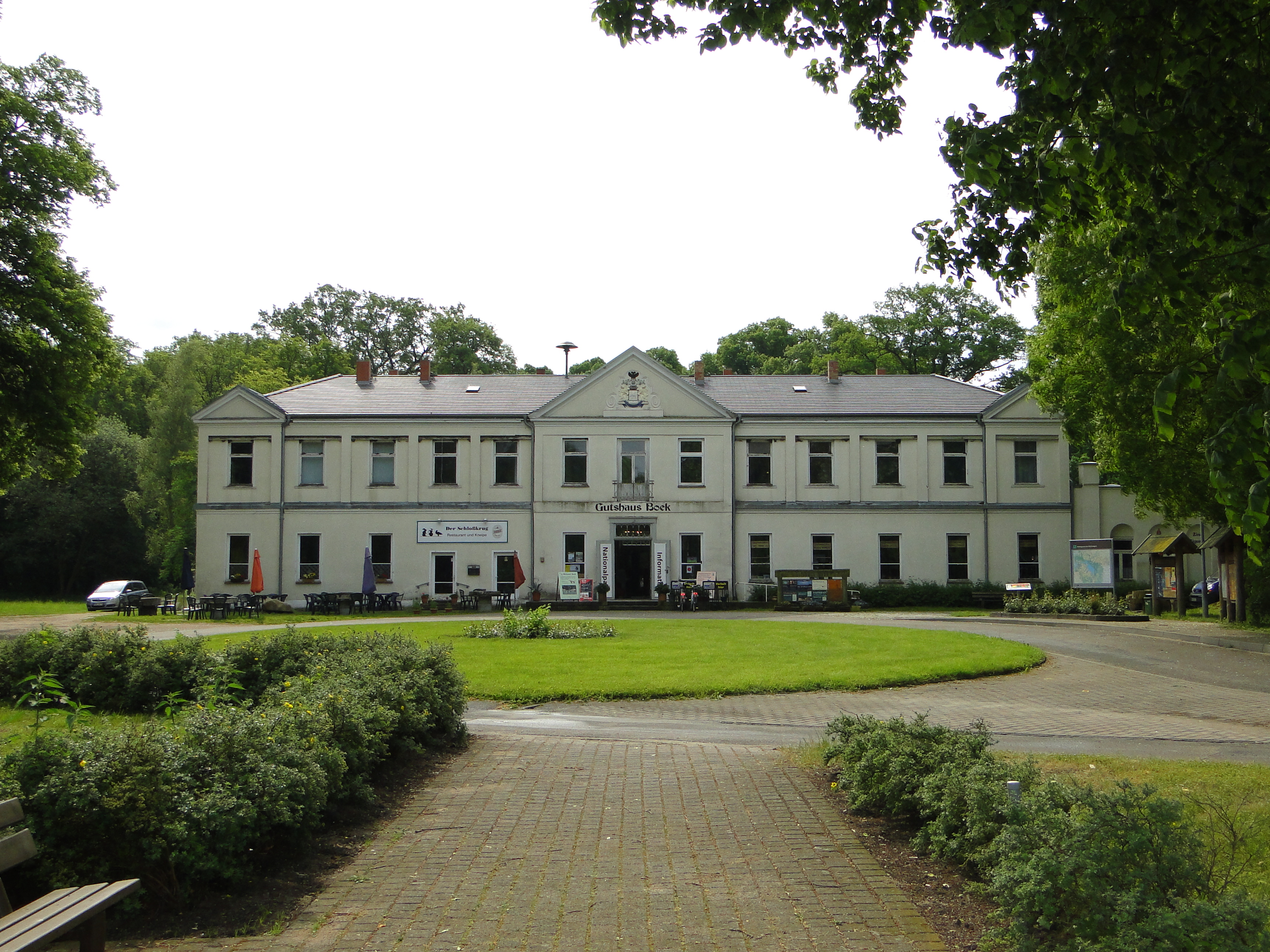 Former manor house in Boek, district Mecklenburgische Seenplatte, Mecklenburg-Vorpommern, Germany